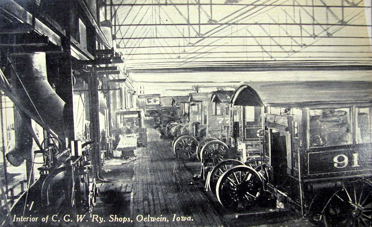 Postcard photo of the Chicago Great Western Railway's shop in Oelwein, Iowa. The shops opened in 1899.